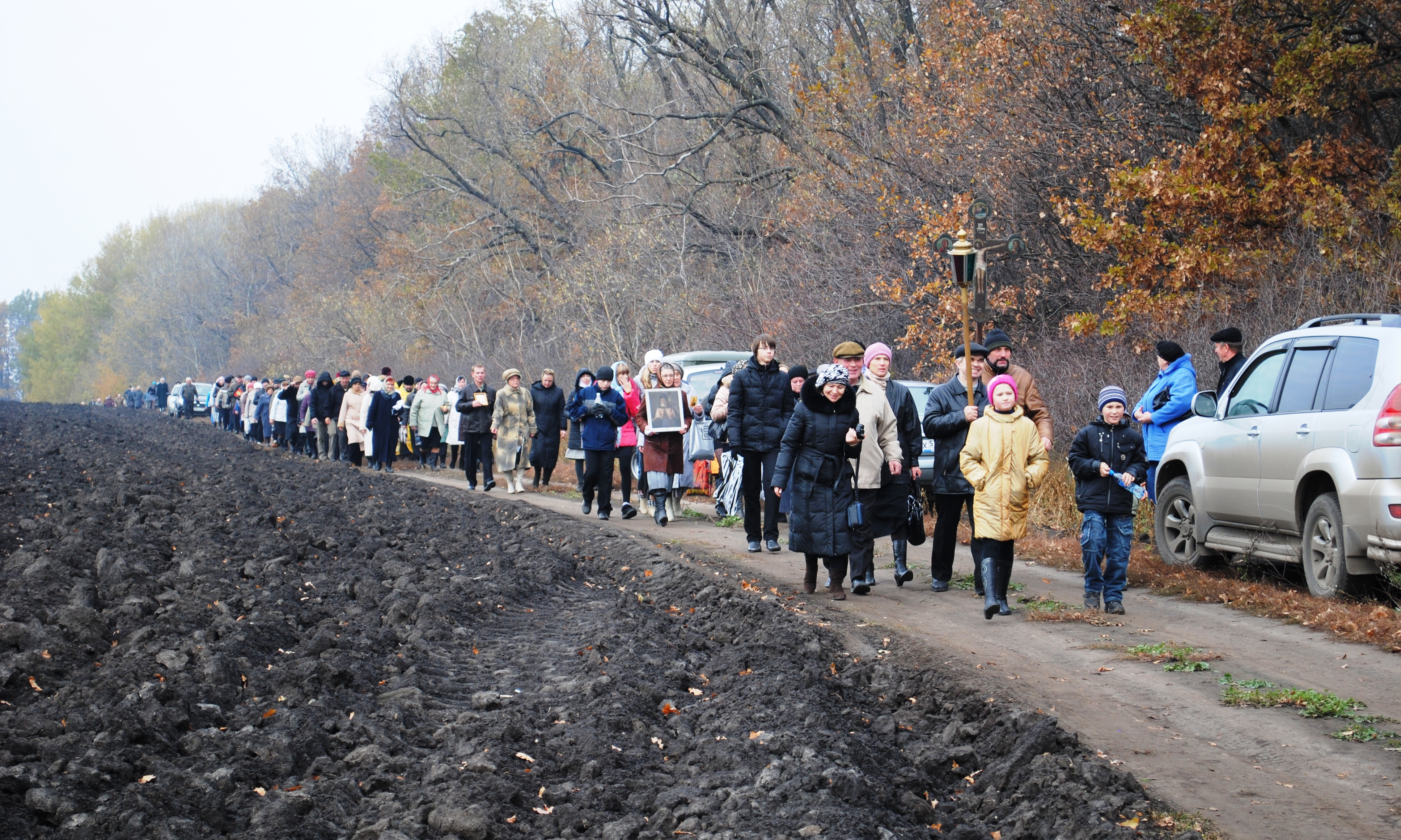 Lipovchik